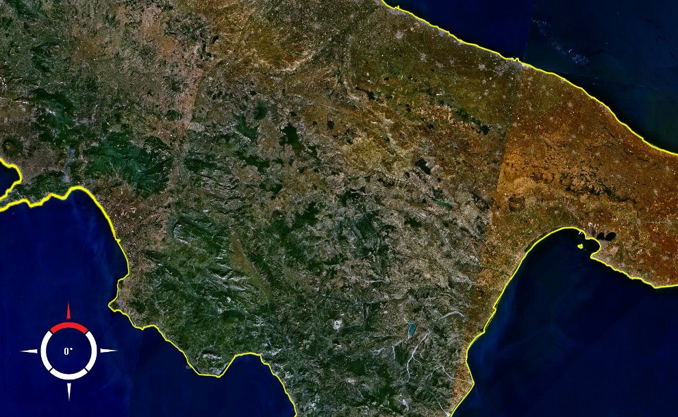 Basilicata from satellite.